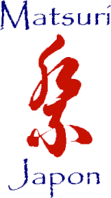 logo of Matsuri Japon festival